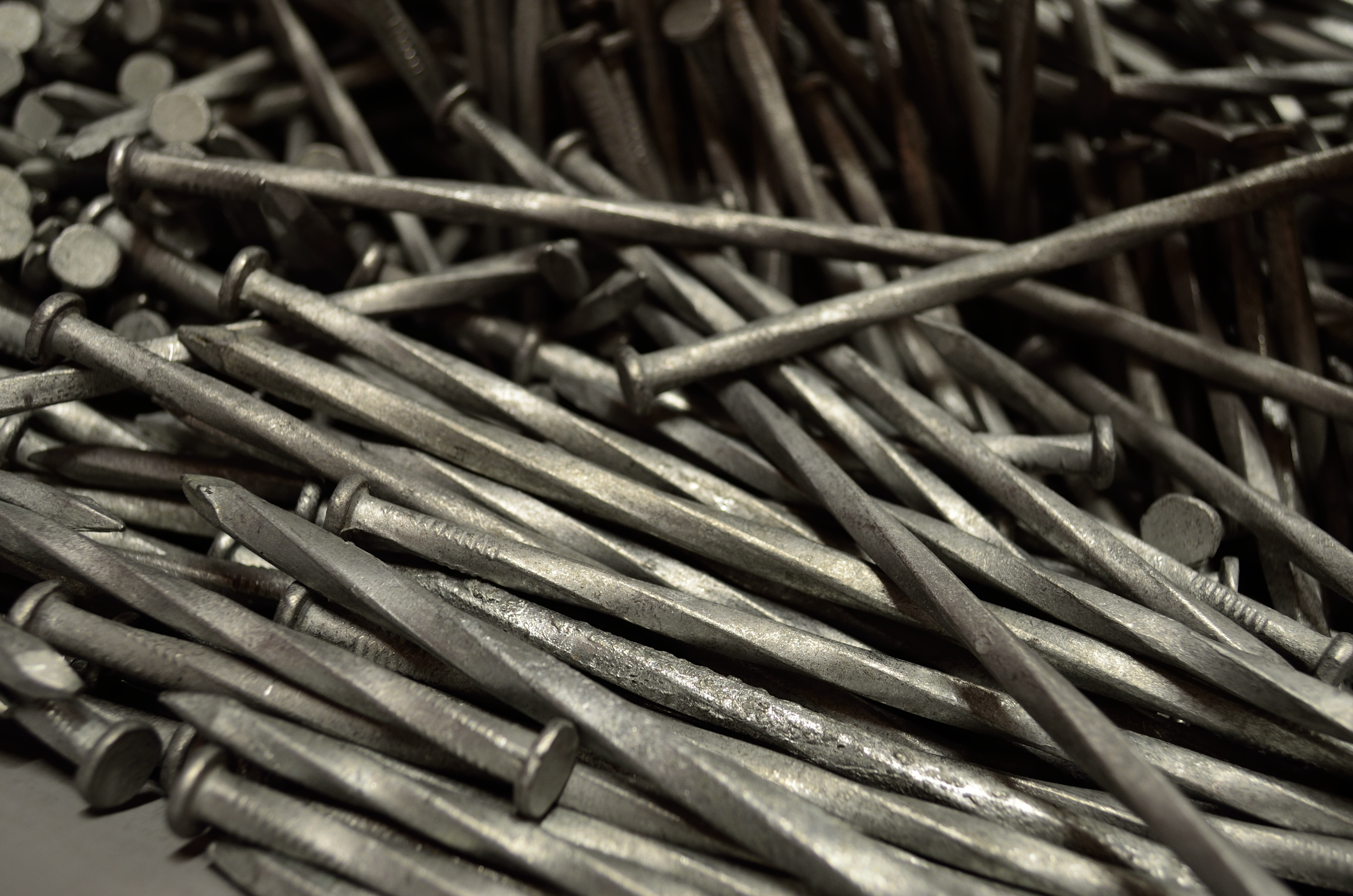 Galvanized nails - closeup photo